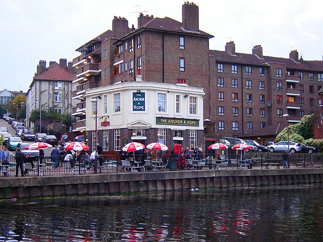 Anchor & Hope pub, Upper Clapton, Hackney, London. 11 October 2005. Photographer: Fin Fahey